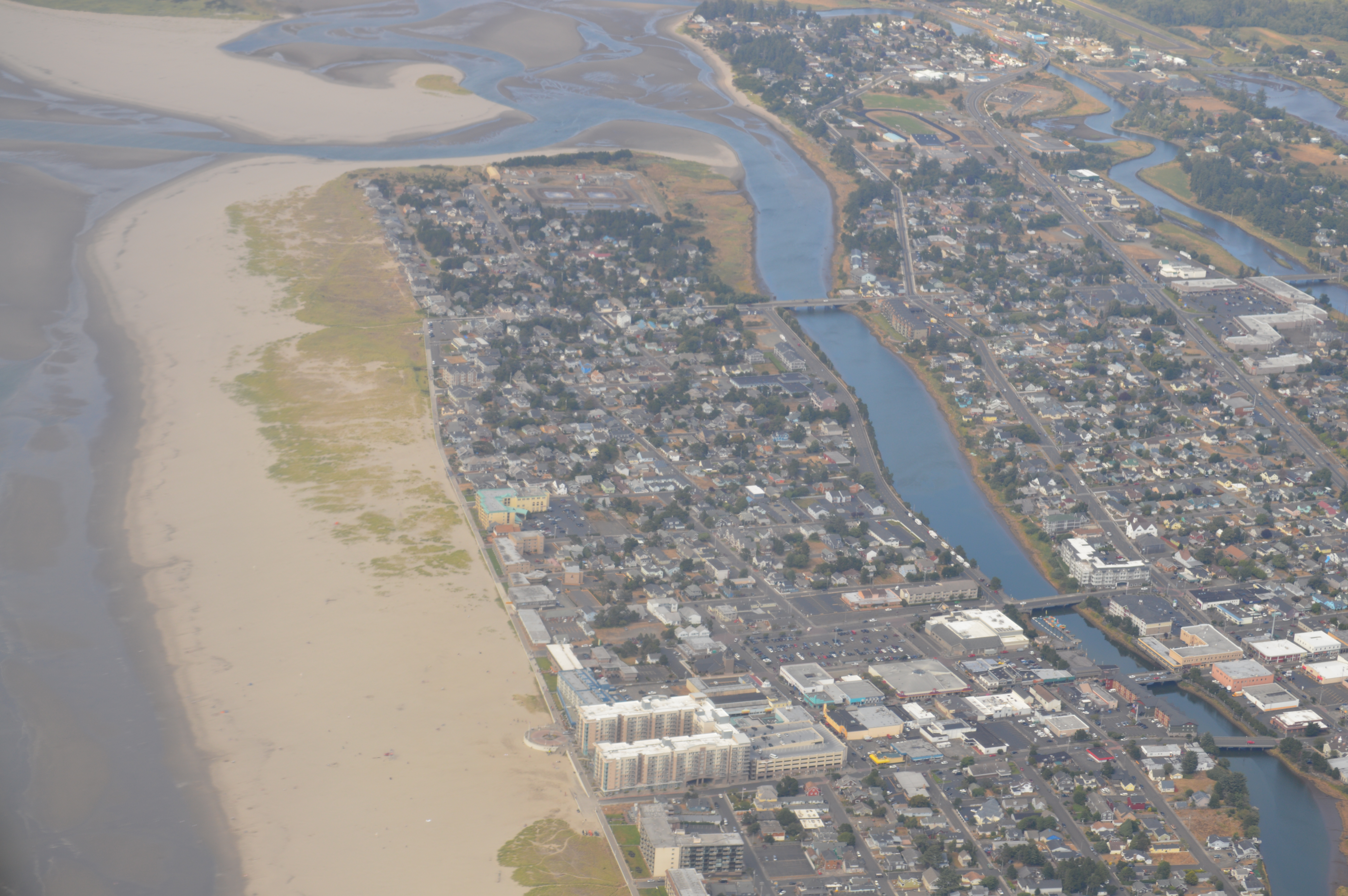 Aerial View of Seaside, Oregon